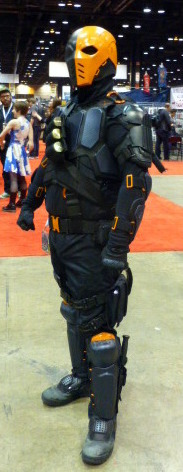 Deathstroke Cosplay at Chicago Comic & Entertainment Expo (C2E2) 2015.